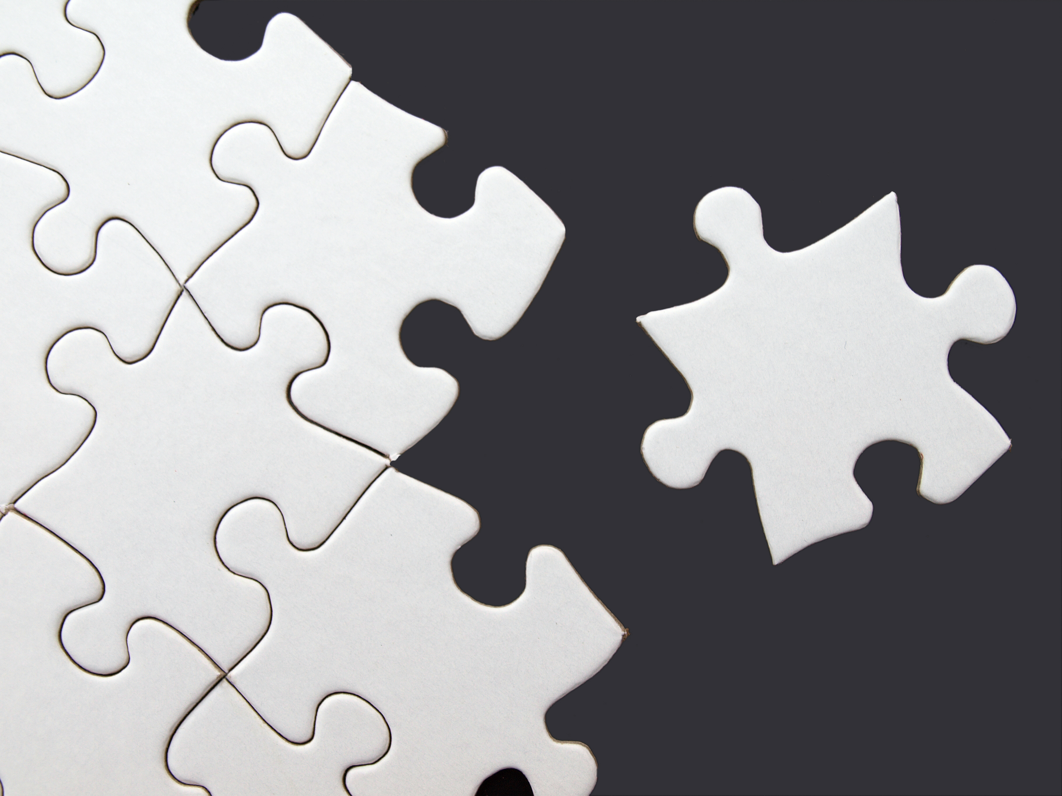 Puzzle piece found, black and white